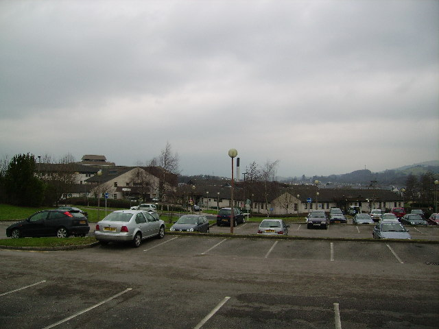 Car Park Westmorland General Hospital. In Kendal. On a good day to cheer you up you can see Kentmere and Longsledale from here.